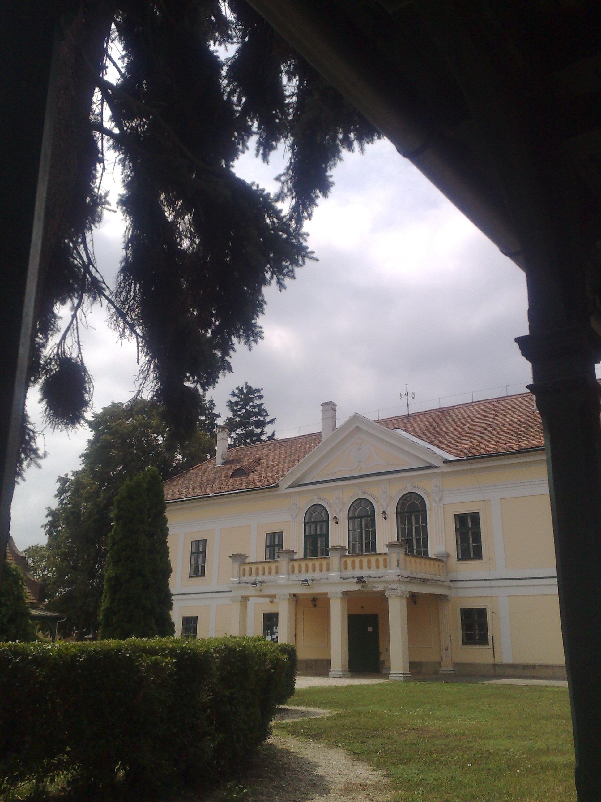 Szany - episcopal mansion from the courtyard